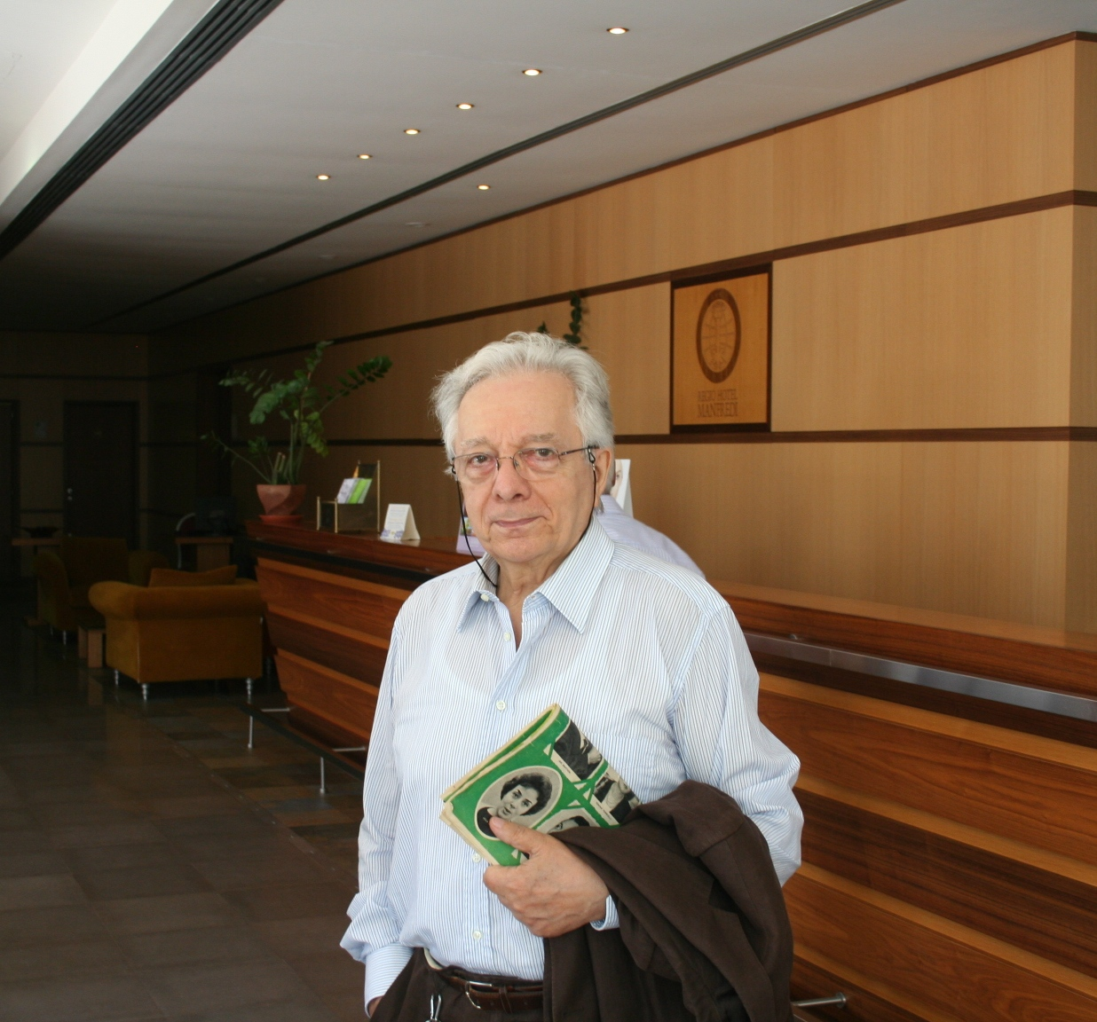 Franco Migliacci in 2010 at the Regiohotel Manfredi in Manfredonia